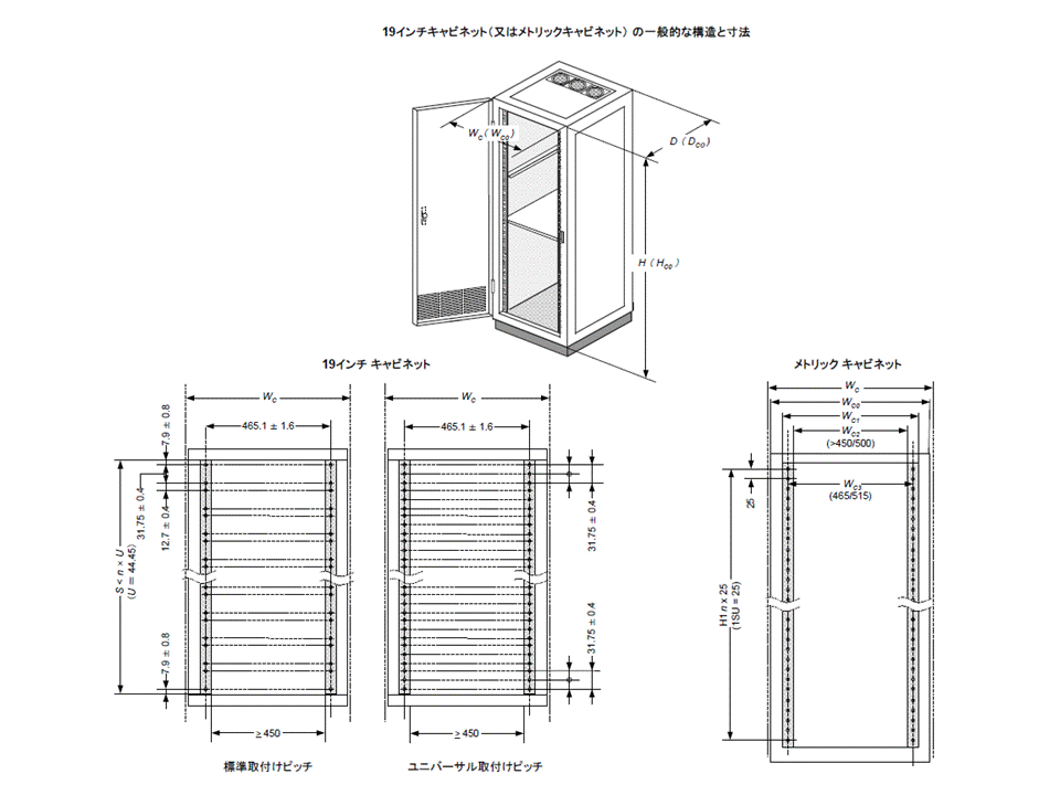 Outline of 19in rack and metric rack